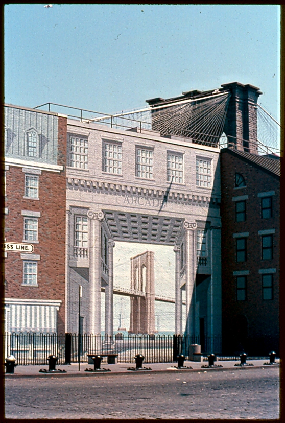 Mural of Brooklyn Bridge, New York City, with the real thing in background. (picture taken 1981).